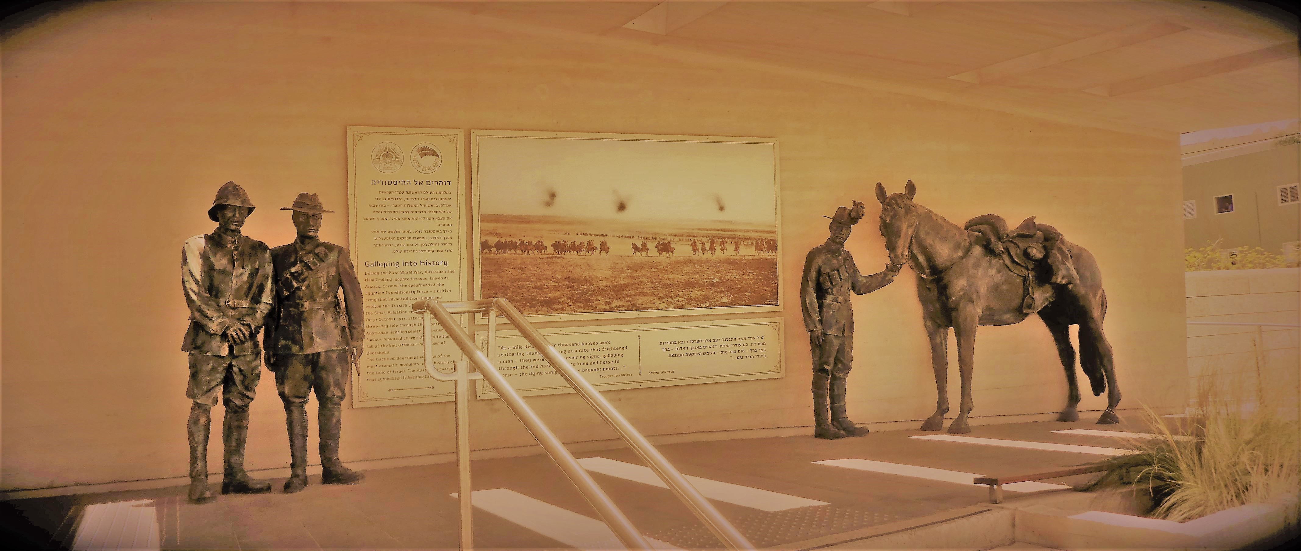 ANZAC Memorial Center